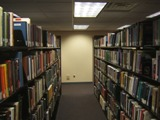 Looking down an aisle at the Eric Sevareid Library, at the University of Minnesota